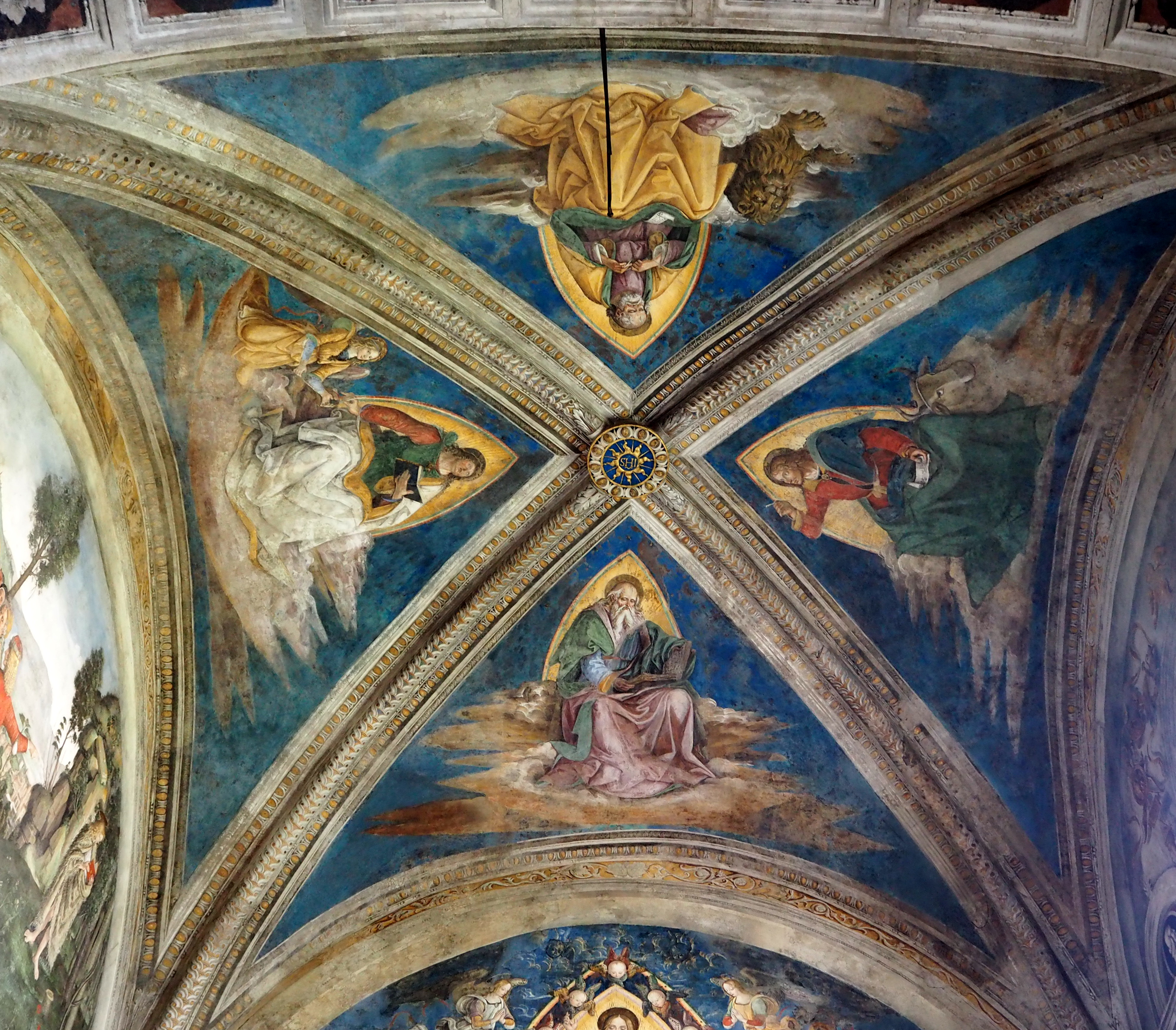 Santa Maria in Aracoeli (Rome), Cappella Bufalini, Ceiling